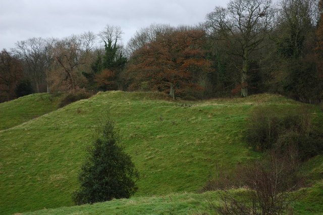 Motte and Bailey, Bacton Site of a small castle overlooking the Golden Valley, possibly either William de Bacton or Richard de Hampton, is thought to have built it. For more information